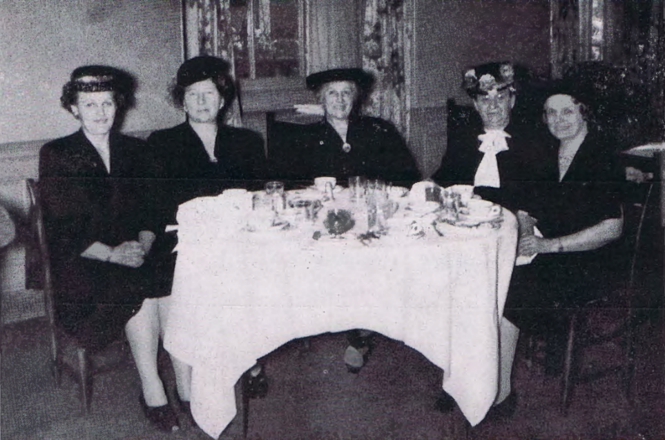 The Ladies Auxiliary of the Holyoke Turners in 1946, left to right, Emma Holl, Lillie Kurth, Emma Carl, Clara Hofmann, Ida Klopfer.